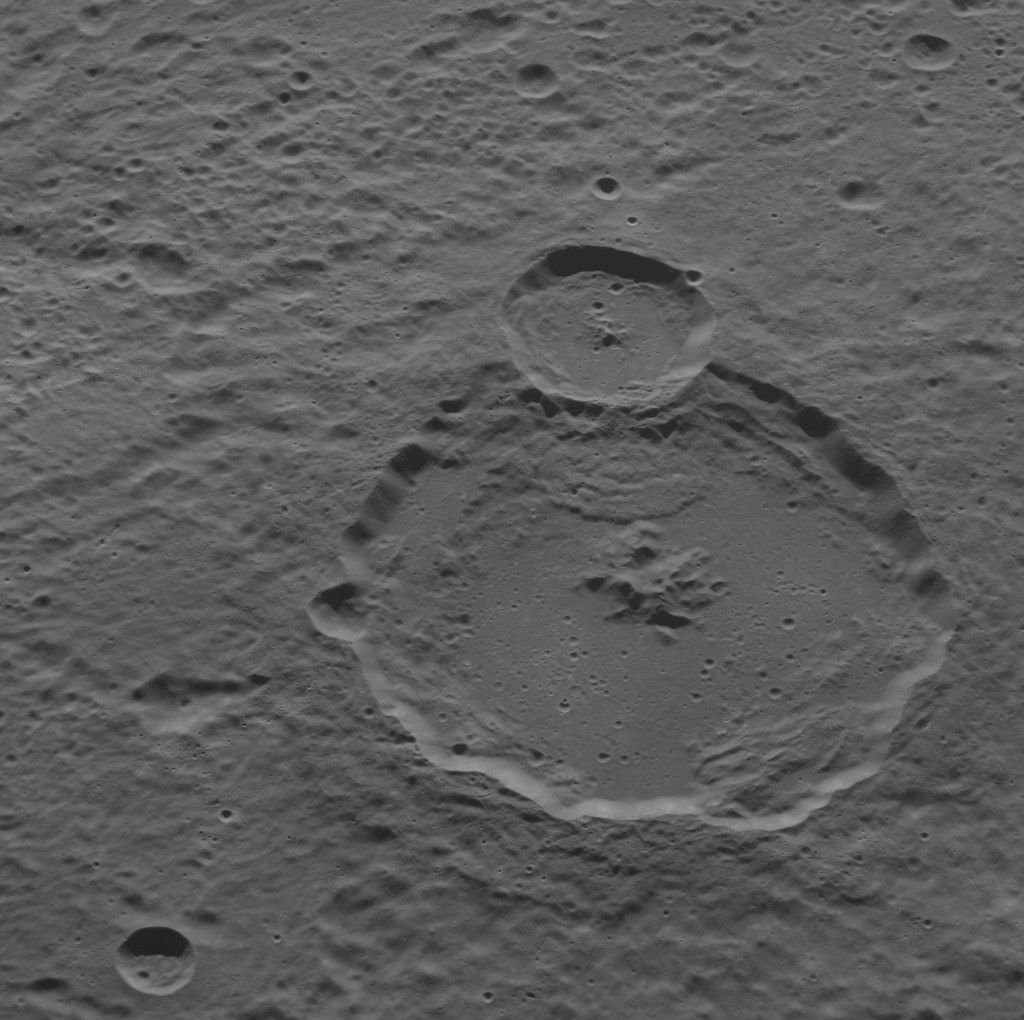 Oblique view of Akutagawa crater on Mercury. MESSENGER Wide Angle Camera image. North is at left. Width is approximately 115 km at bottom. Emission Angle: 38.7 Incidence Angle: 67.6 Latitude: 48.5 Longitude: 219.9 Phase Angle: 106.3